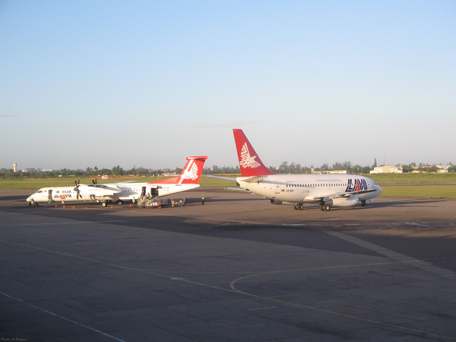 Maputo Airport, LAM Boeing 737-2K9 - C9-BAI and Moçambique Expresso C9-AUM Dash 8 Q400 operated by LAM